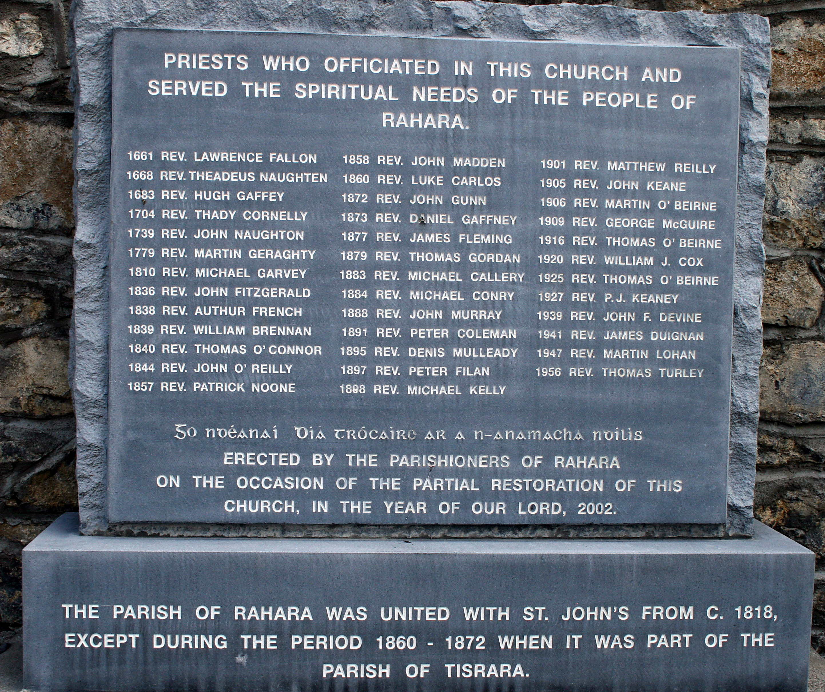 In Rahara, County Roscommon